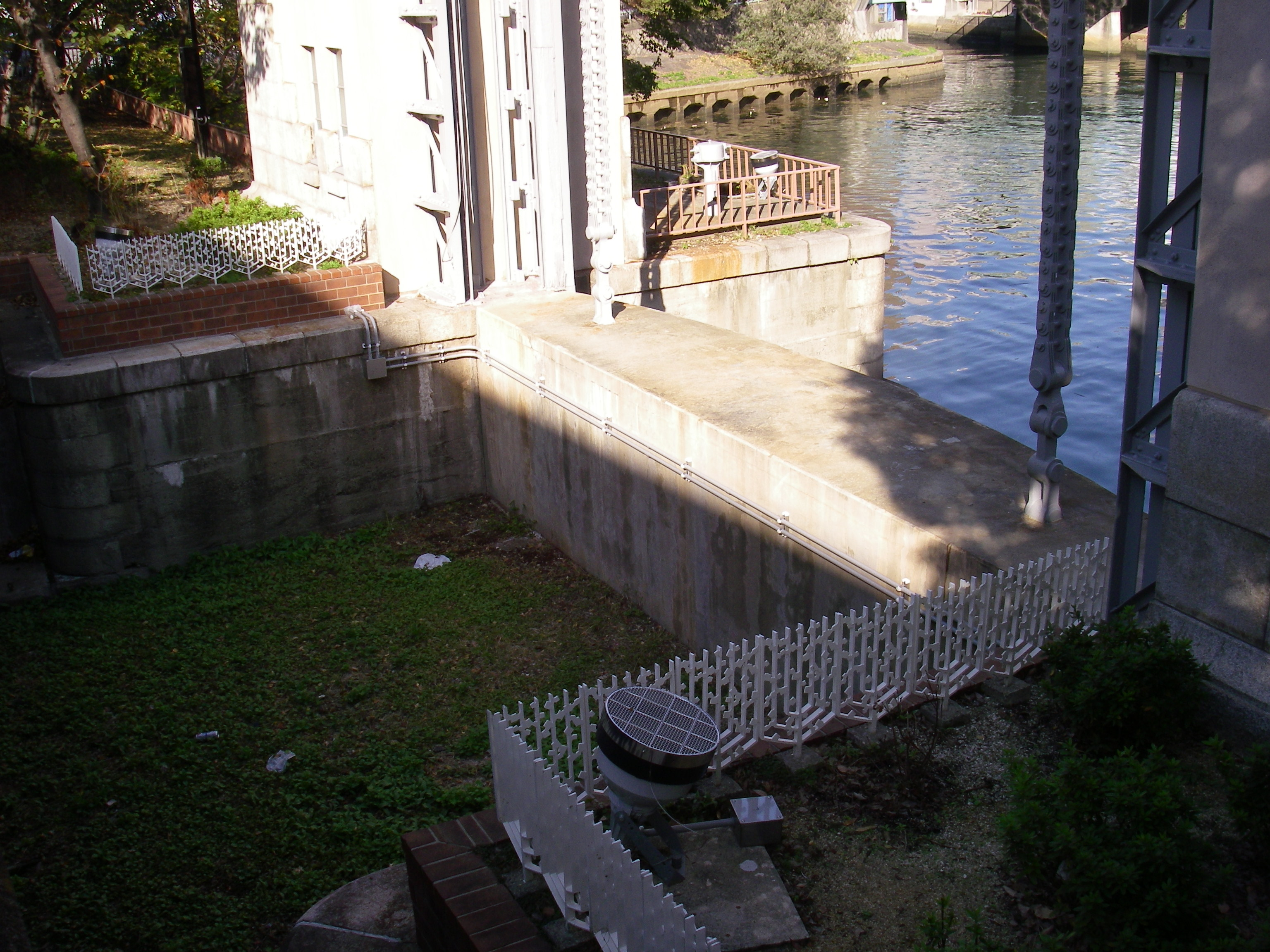 Matsushige Lock in Nagoya, Japan, seen from the Nagoya Municipal Road Egawa Line